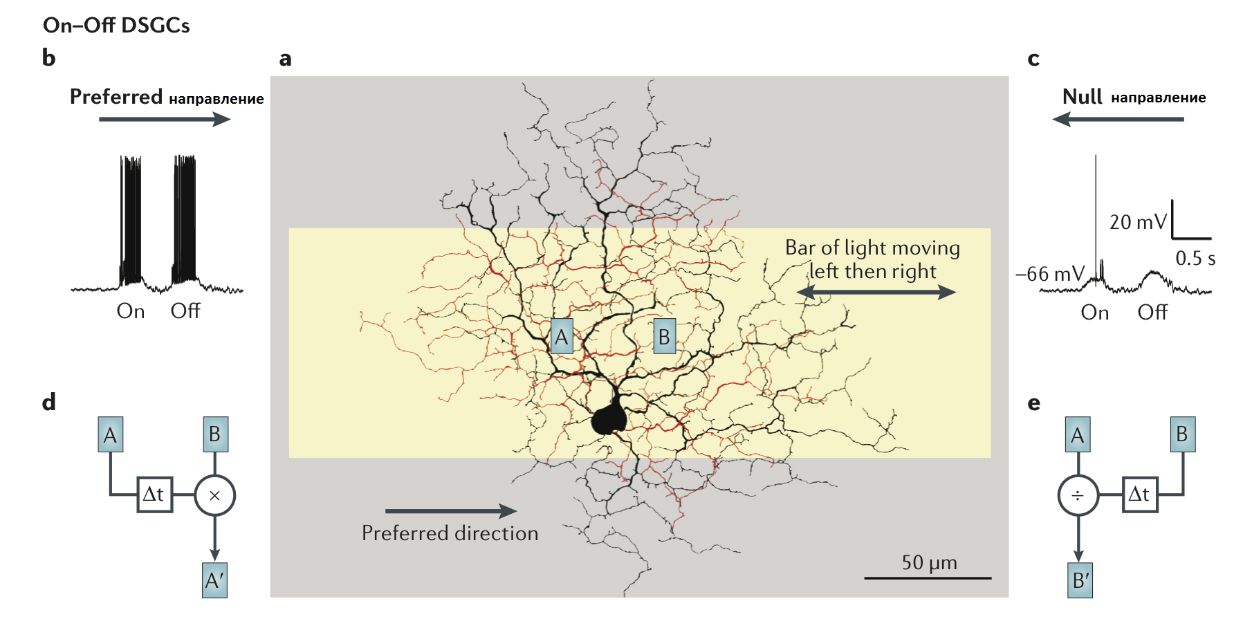 The response of ON-OFF DSGC to stimulus in the null and preferred direction